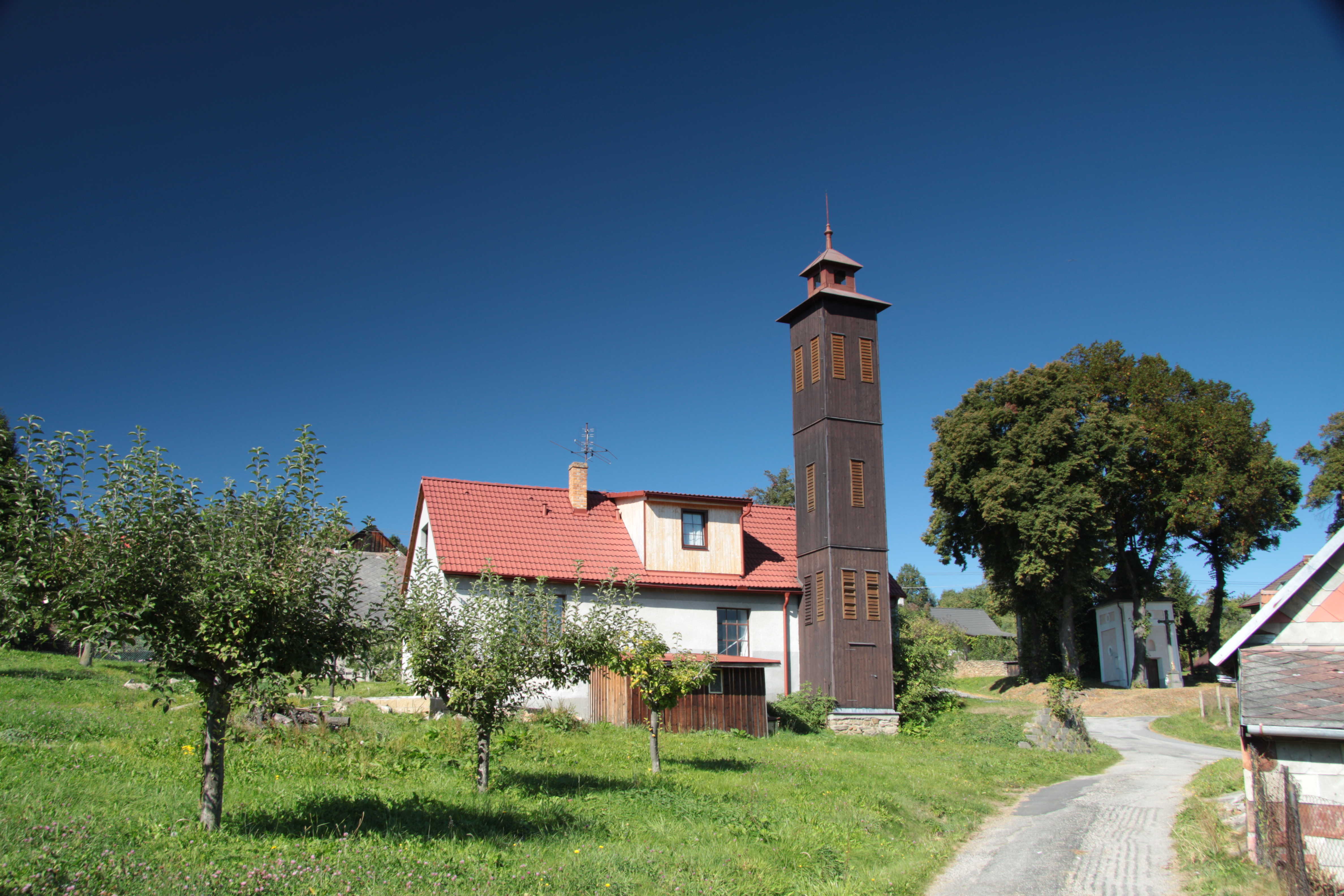 Zábrdí village in Prachatice District, Czech Republic - Google Maps - Google Earth